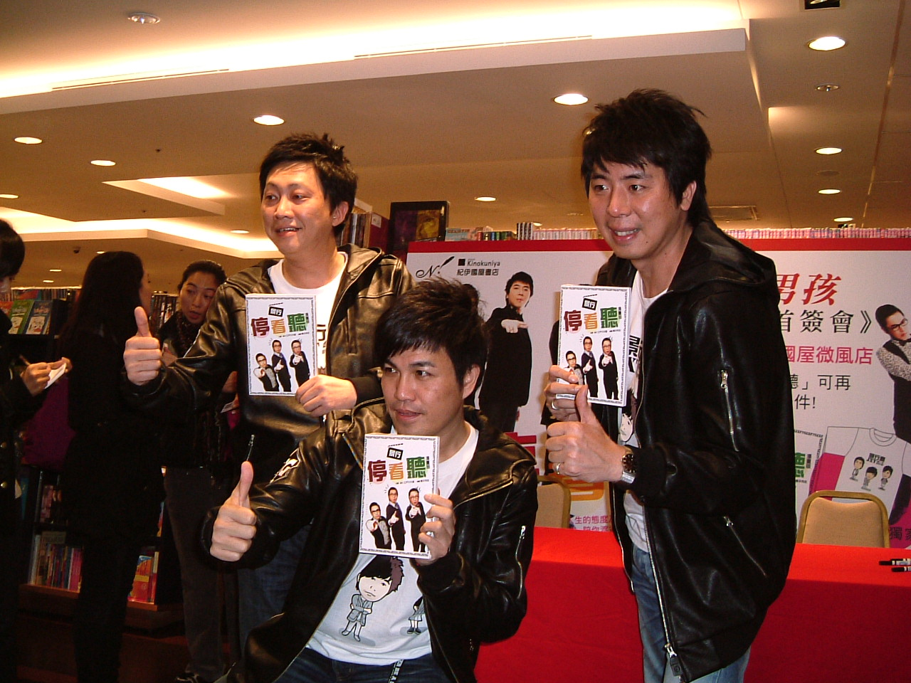 The three-people group JXT Boys (Jing Xing Ting Boys).